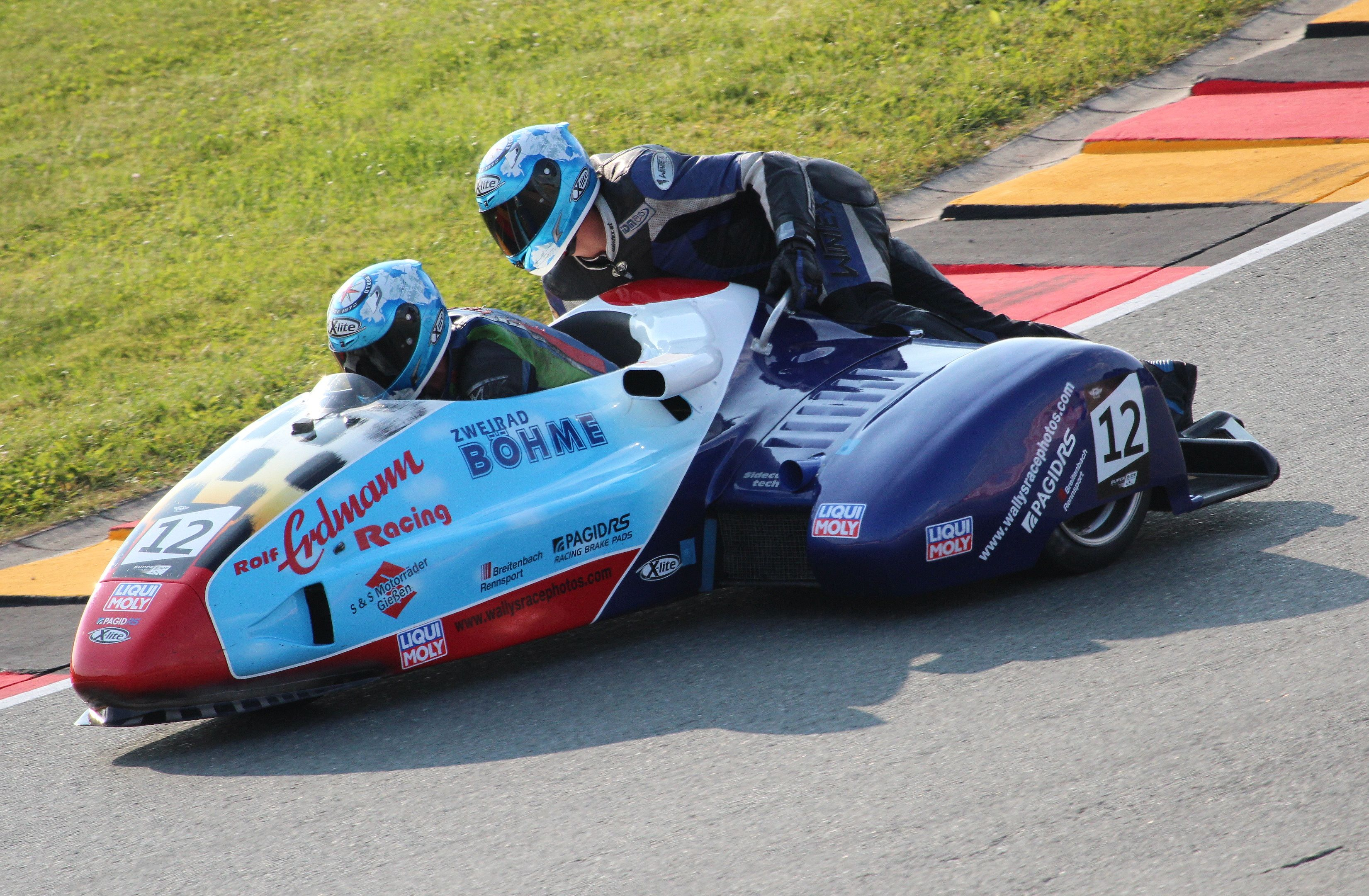 Kurt Hock & Enrico Becker at the Sachsenring in 2013, Sidecar World Championship